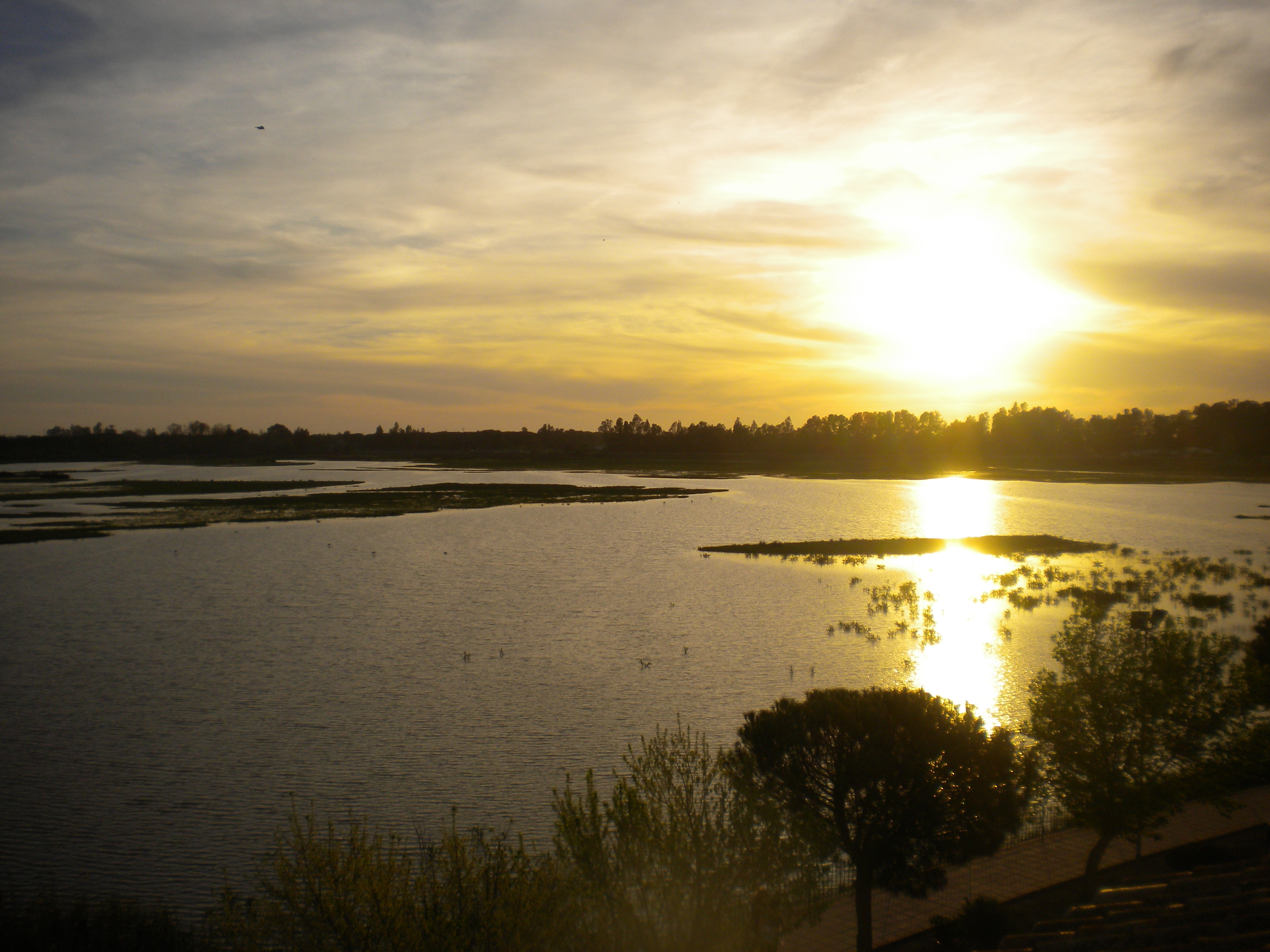 "Charco de la Boca", which is located next to El Rocío and which is part of Doñana National Park (Huelva, Spain).